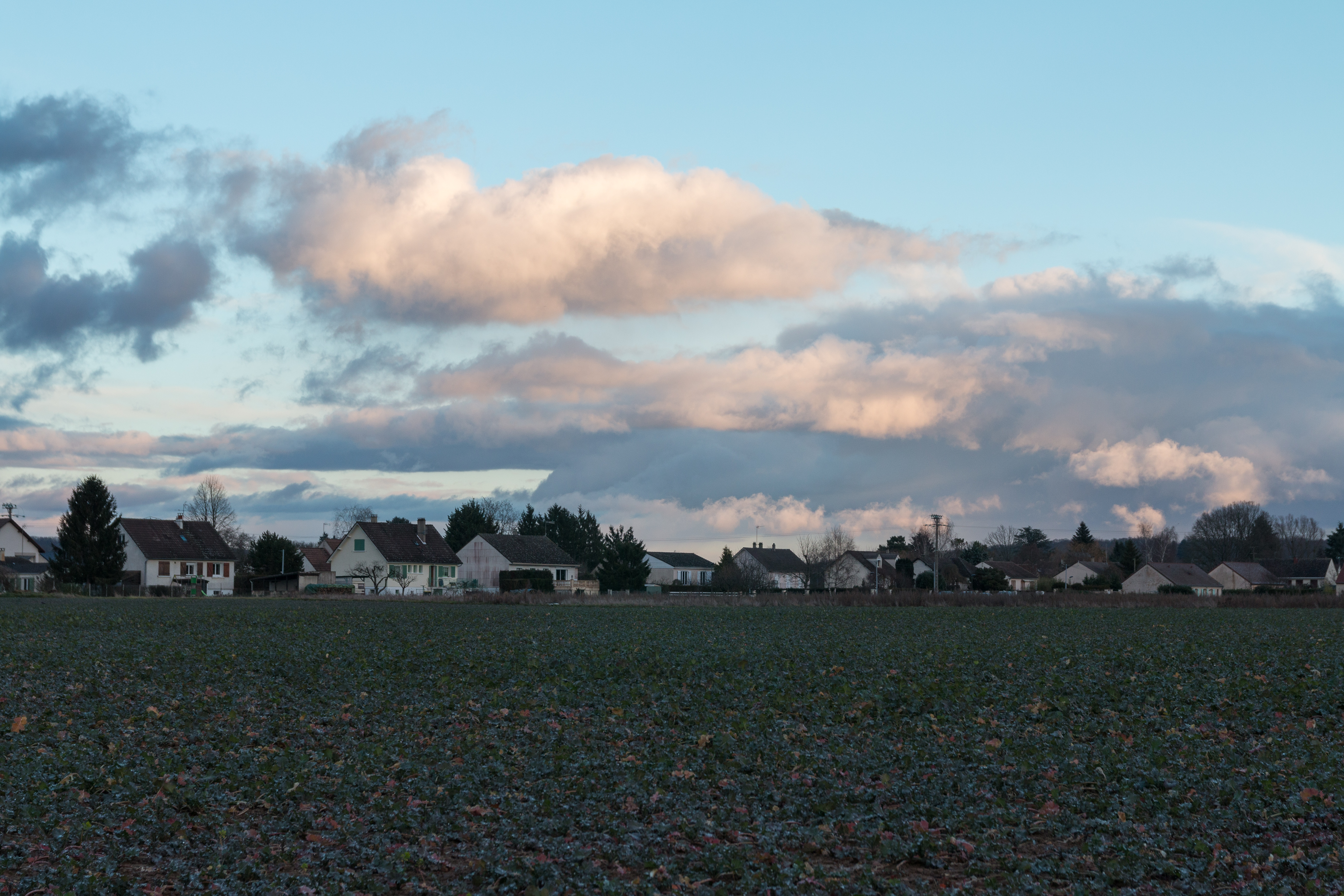 The village seen from the Fountains wharf.